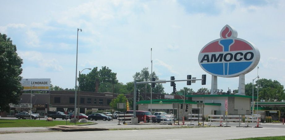 St. Louis Hi Pointe Neighborhood - Clayton & Skinker